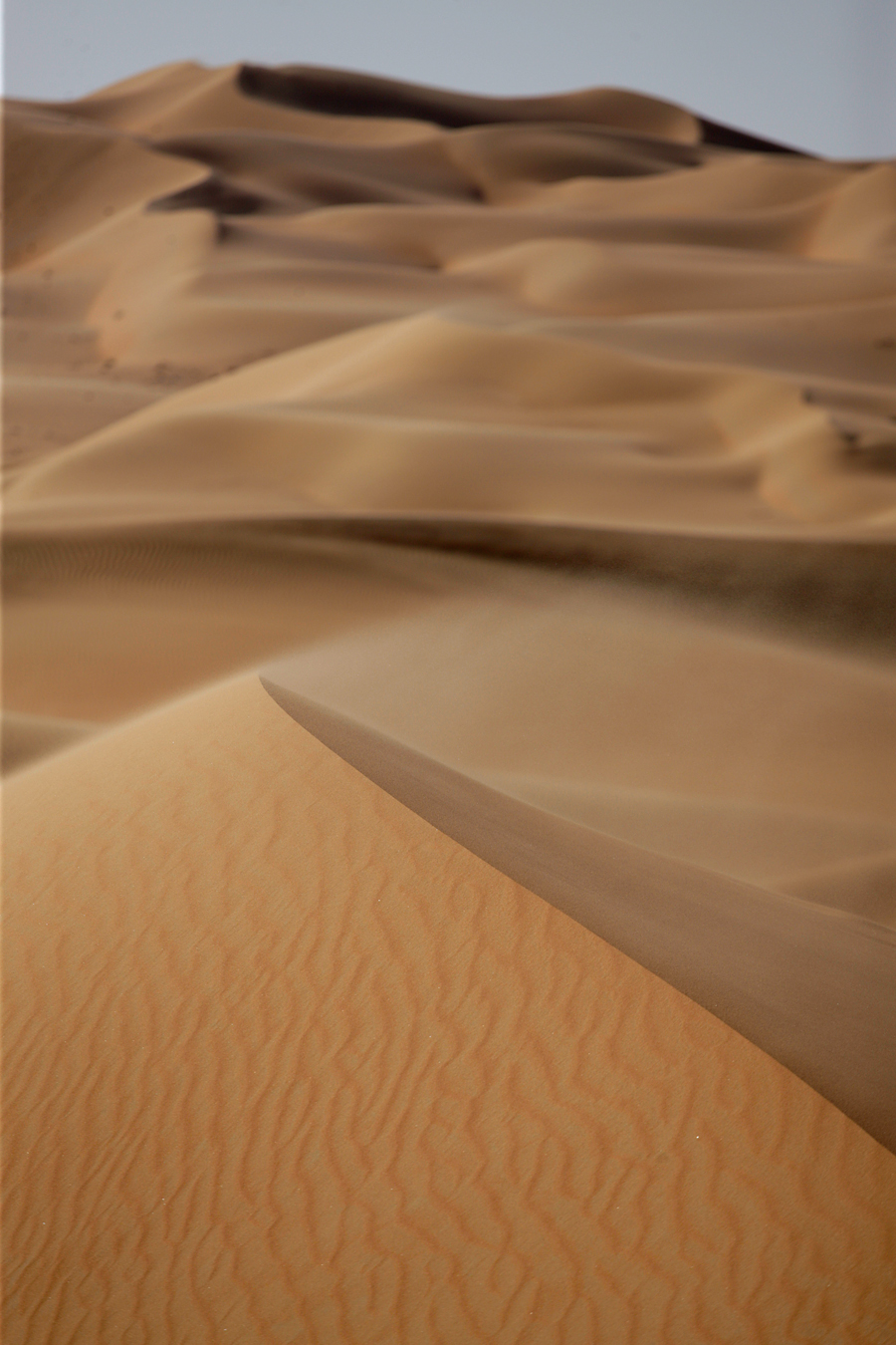 Sand Dunes of Namibia.